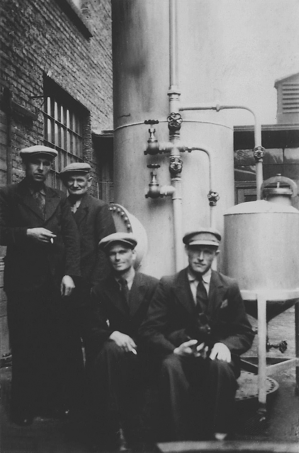 Czesław Trzciński with his boss and workmats